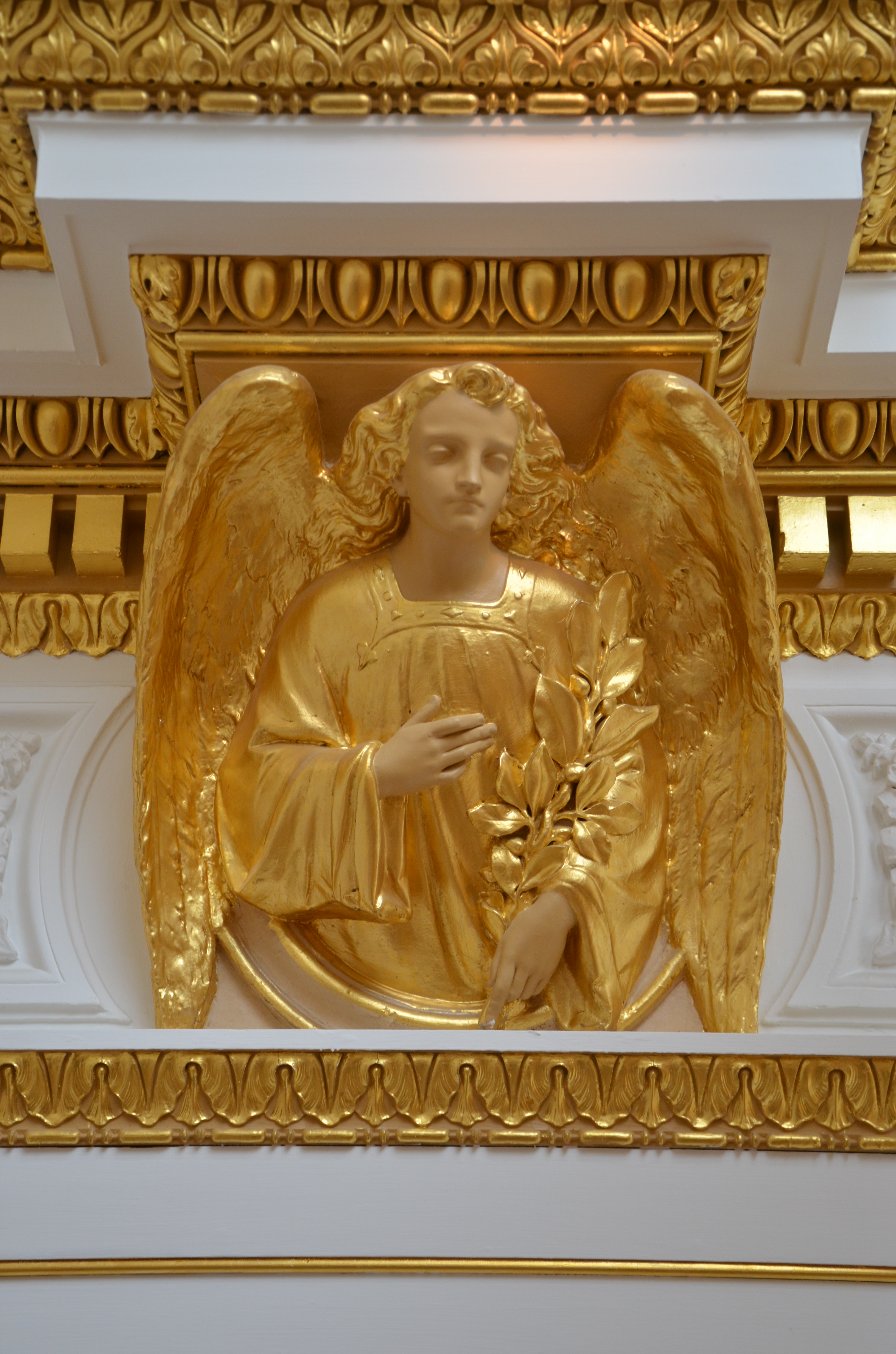 Decoration in Grand Hall, Burlington House